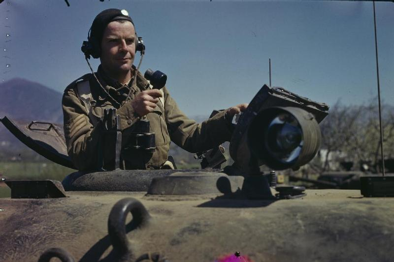 The British Army in Italy, April 1944 The 'Tankman'. Sergeant A G Williams of 17/21 Lancers in the turret of his Sherman tank at the main Headquarters of the Eighth Army in the San Angelo area of Italy. Sergeant Williams from Woodford Bridge, Essex left England in November 1943, landed in North Africa, and from there was sent to Italy.